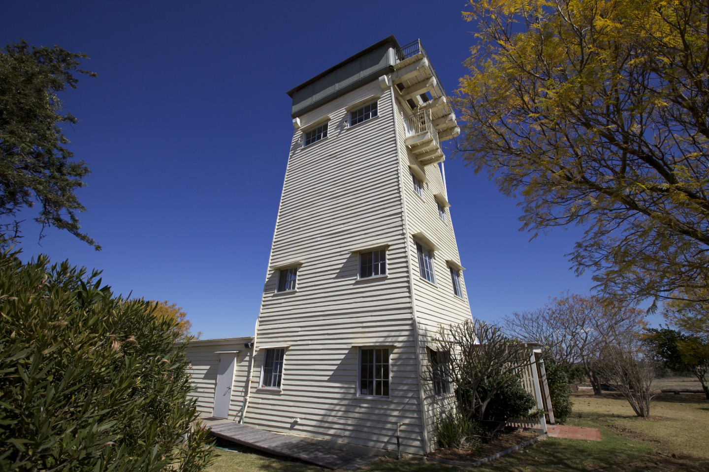 Jimbour is the main homestead on one of the earliest stations established on the Darling Downs, is important in demonstrating the pattern of early European exploration and pastoral settlement in Queensland, Australia.